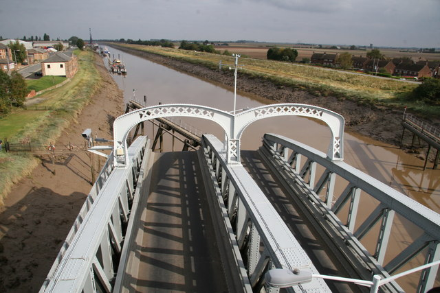 Cross Keys Swing Bridge - swung fully View along the river from the control cabin level. Heartfelt thanks to the bridge crew for allowing a group of enthusiasts to crowd into their domain for a most interesting experience.